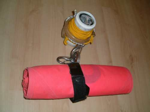 deco buoy furled